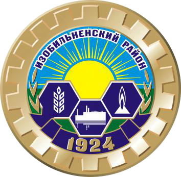 Emblem of Izobilnensky rayon, Stavropol Krai, Russia